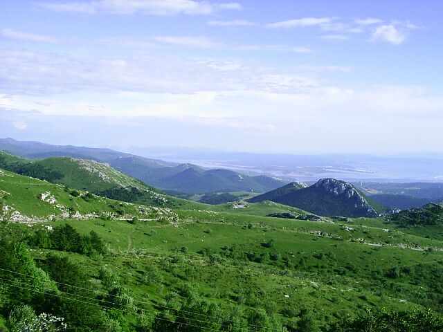 Risnjak mountains, Croatia